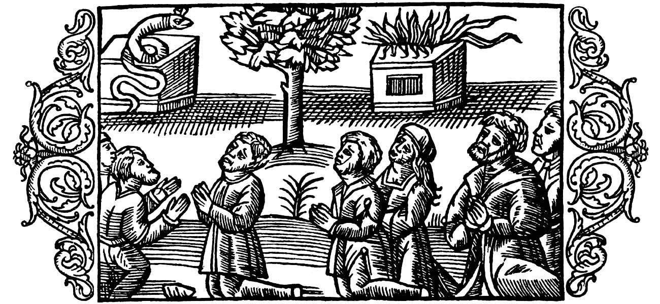 The woodcut shows praying people and two altars, one with a snake and one with a fire.